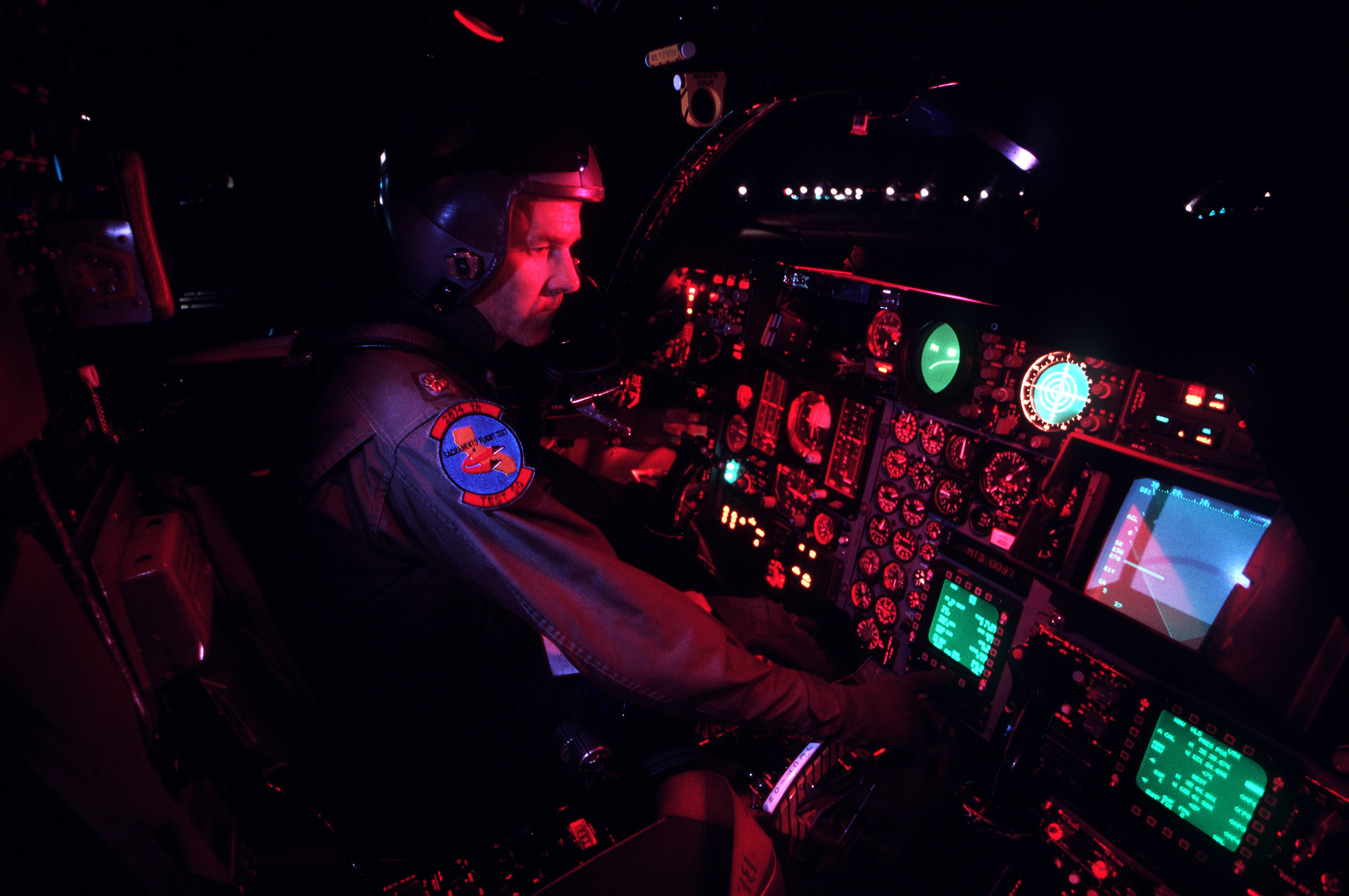 MAJ Stephen R. Webber of the 2874th Test Squadron runs through a COCKPIT check before taking an F-111 aircraft on a night test flight. Location: MCCLELLAN AIR FORCE BASE, CALIFORNIA (CA) UNITED STATES OF AMERICA (USA)